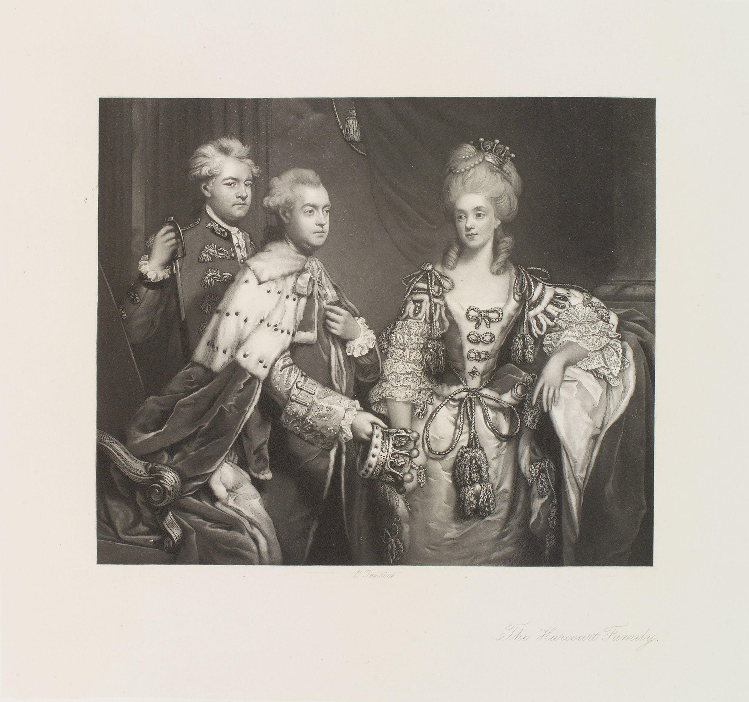 All images in this batch have been confirmed as author died before 1939 according to the official death date listed by the NPG.